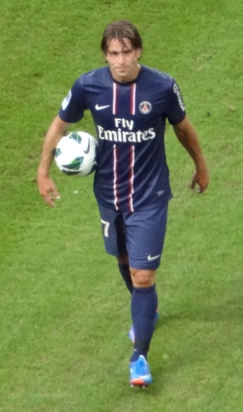 Sherrer Maxwell (PSG)